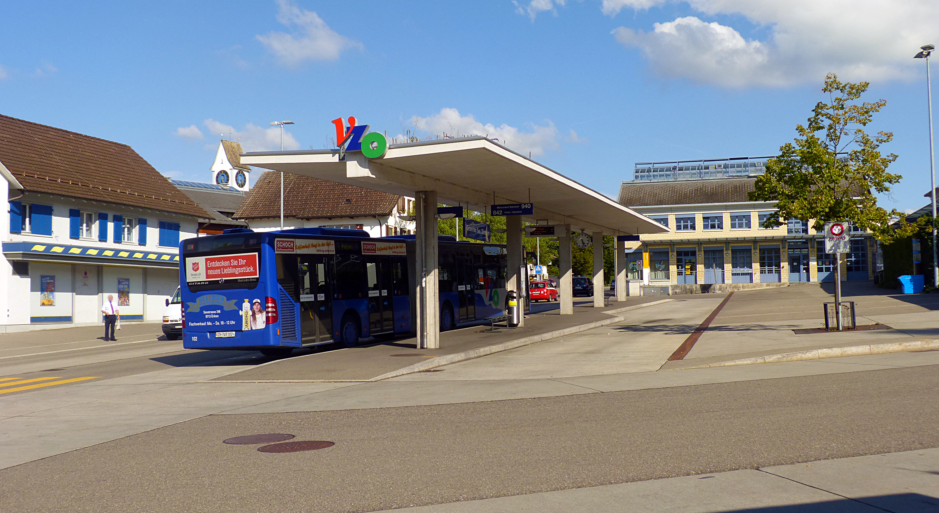 Central Busstop Oetwil am See, Canton of Zürich, Switzerland